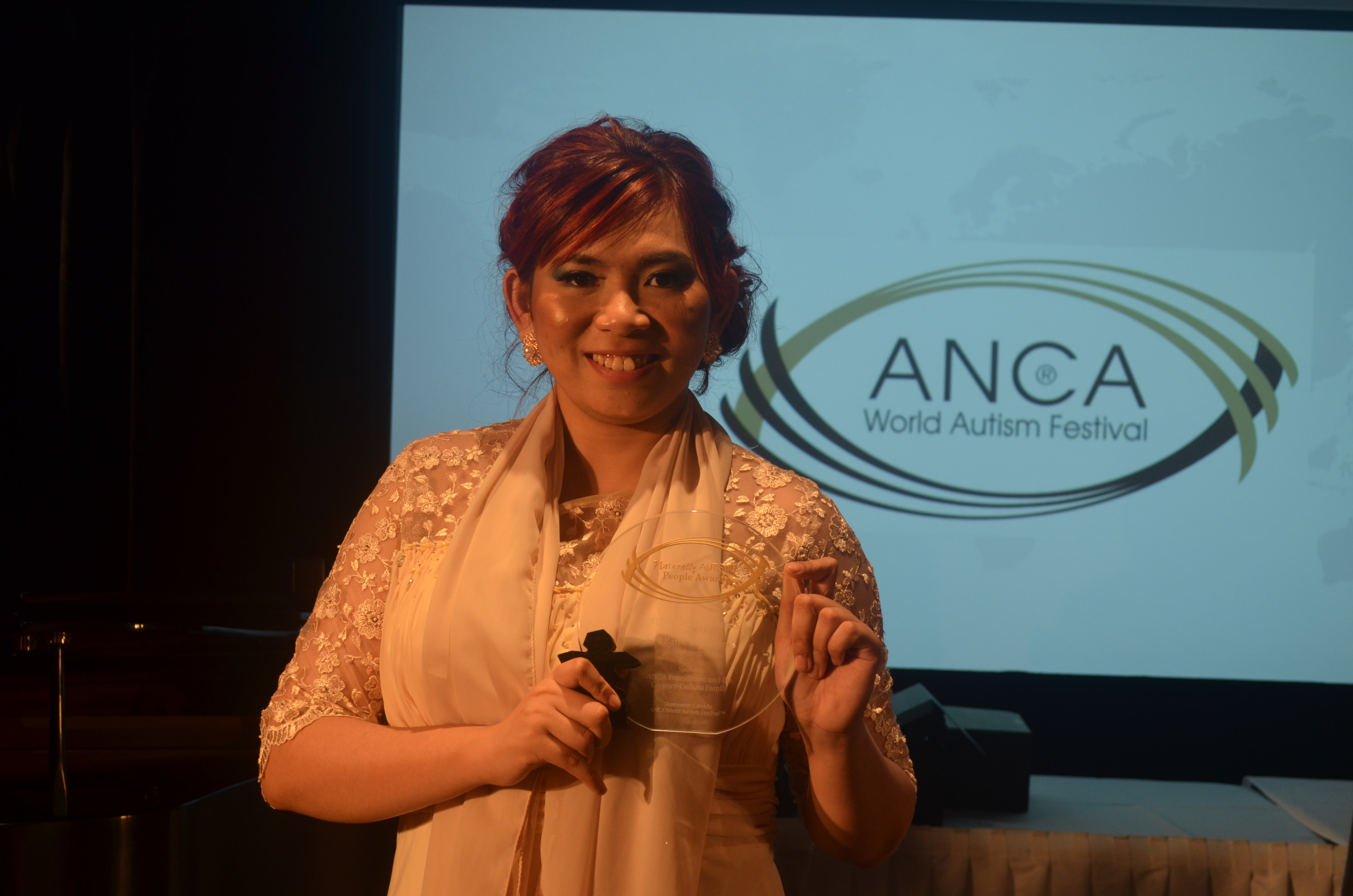 Vell receiving the 1st place at the Performing Arts at the 7th INAP Awards Night at Vancouver, Canada last October 1, 2016